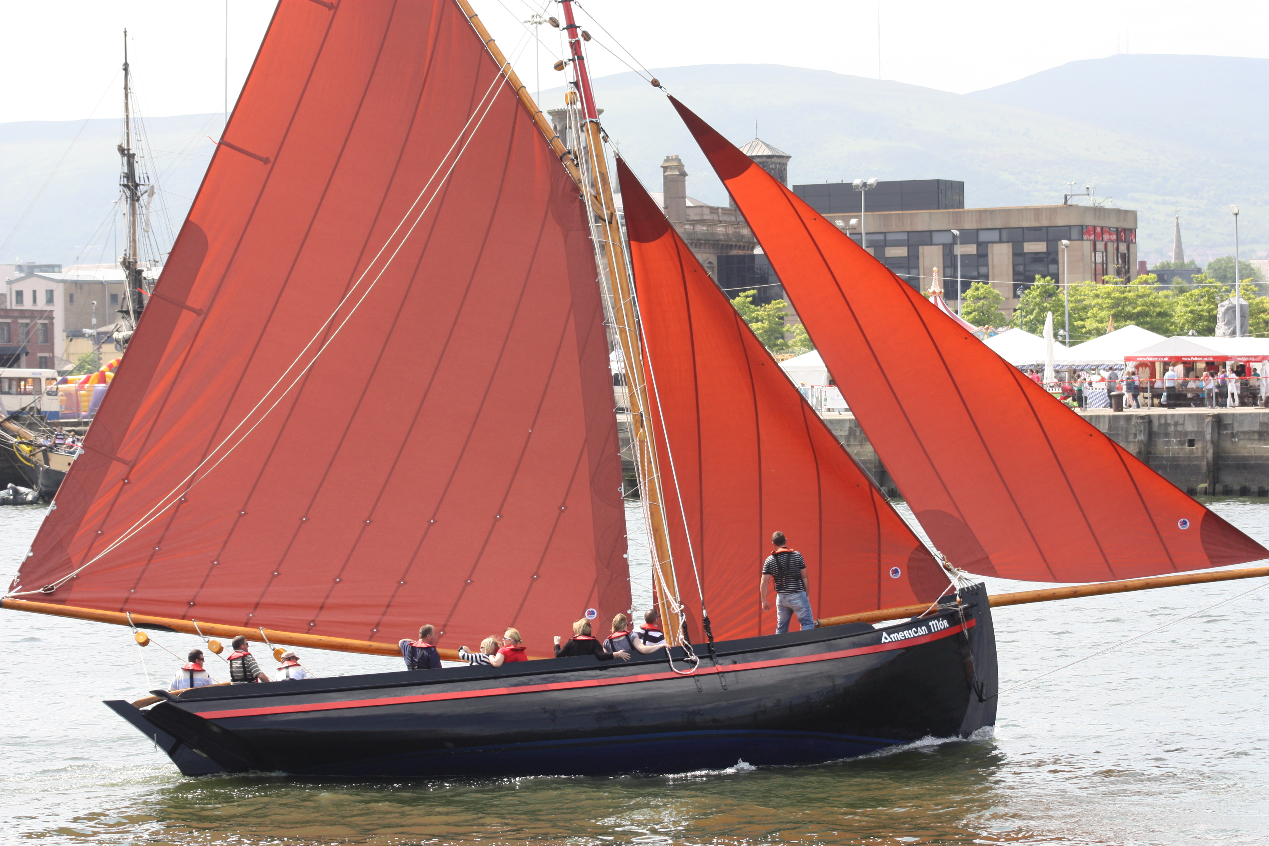 Galway Hooker, Belfast Titanic Maritime Festival, Queen's Quay, Belfast, Northern Ireland, June 2010